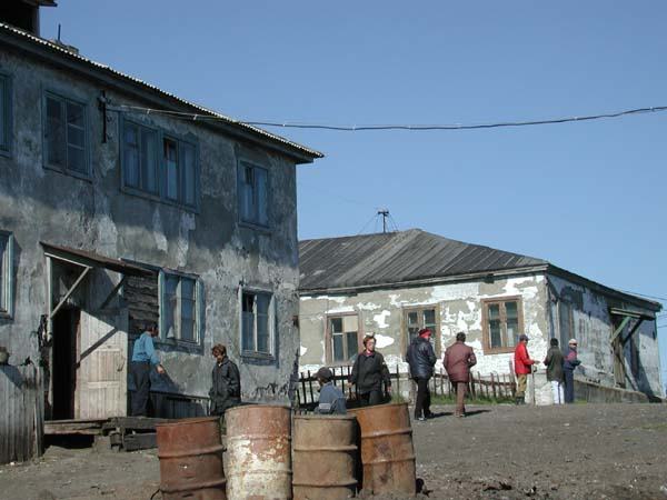 Scene from Yanrakinnot village